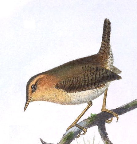 Troglodytes solstitialis